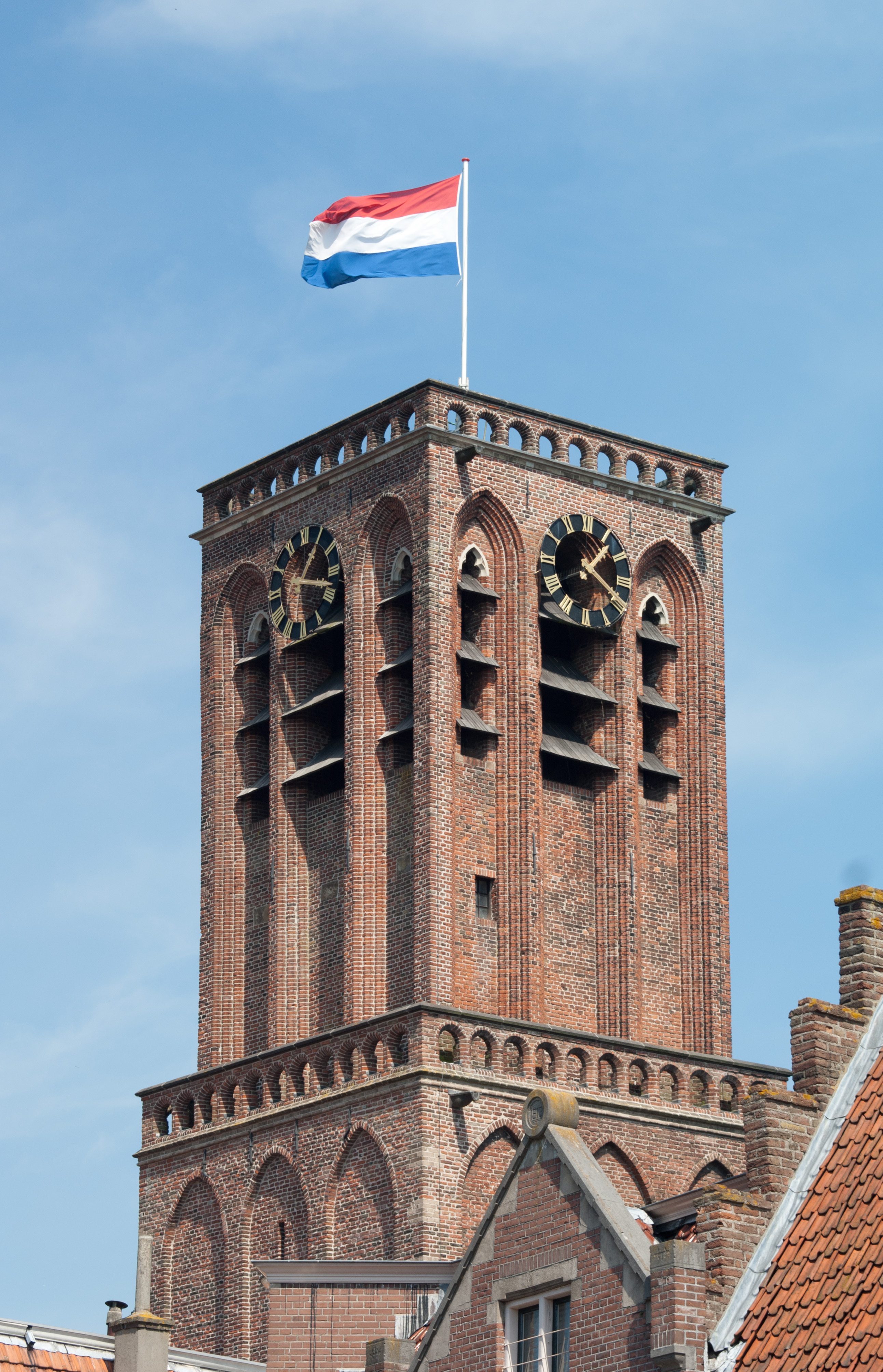 Toren Grote Barbarakerk